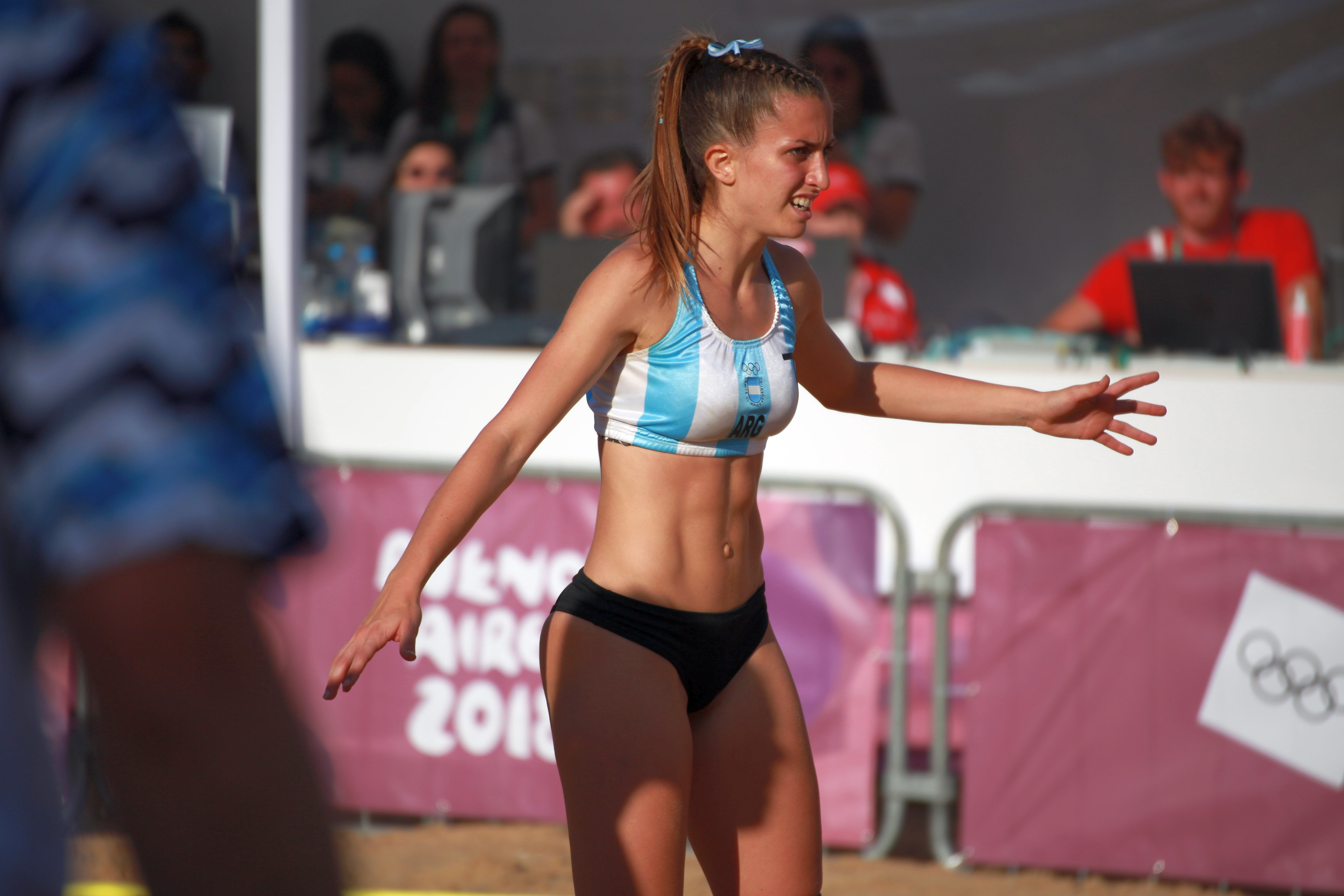 Beach handball at the 2018 Summer Youth Olympics in Buenos Aires at 13 October 2018 – Girls Gold Medal Match – Argentina-Croatia 2:0